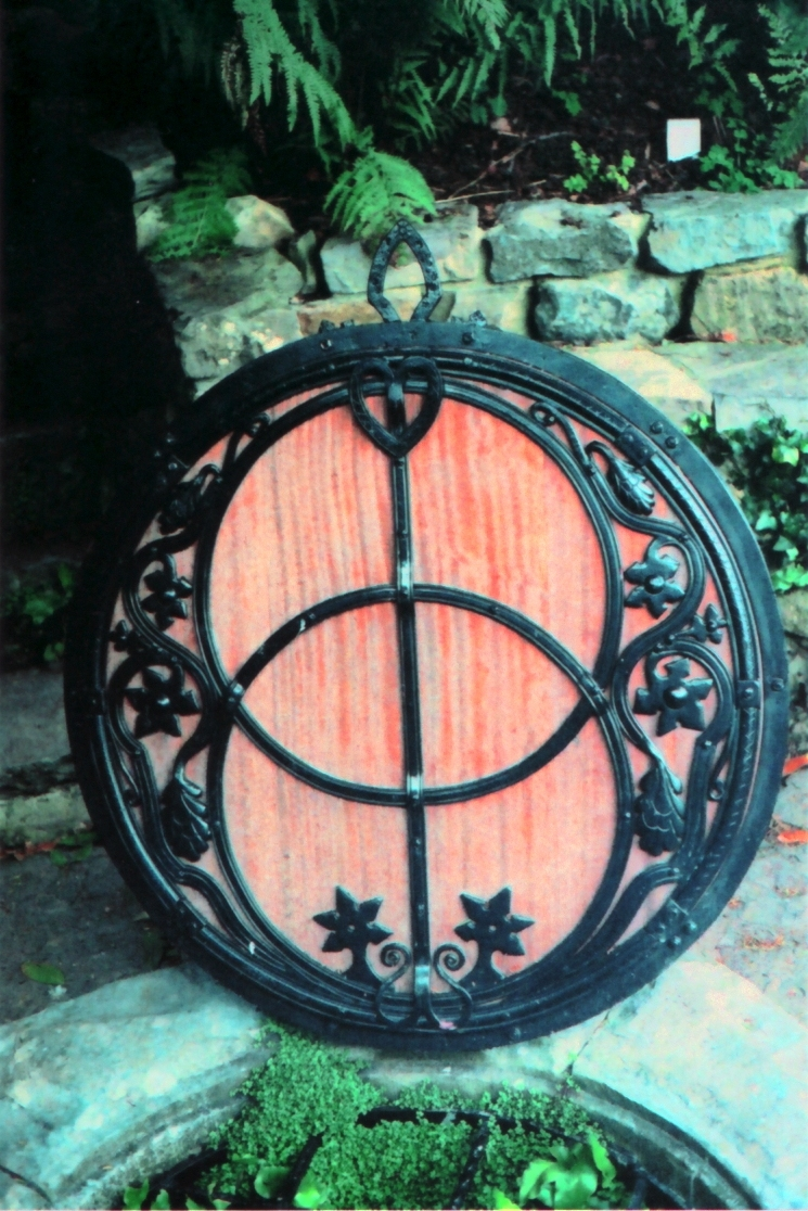 Cover of the Chalice Well, Glastonbury, Sommerset. The design depicts the Vesica Piscis.